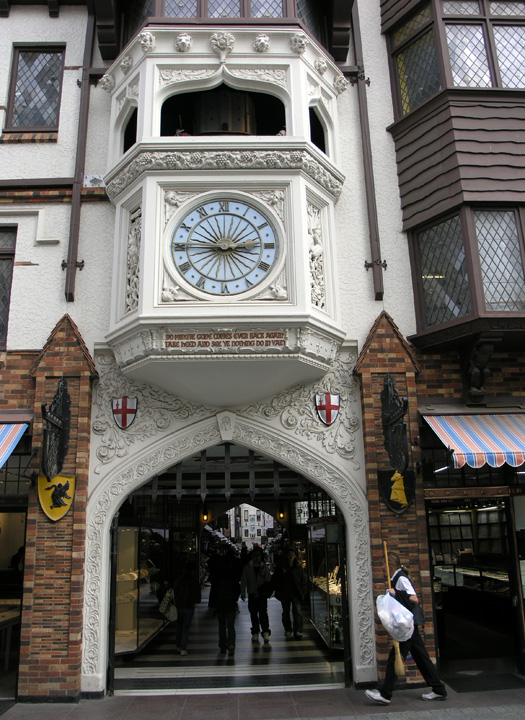 London Court Perth, WA, taken by SeanMack.